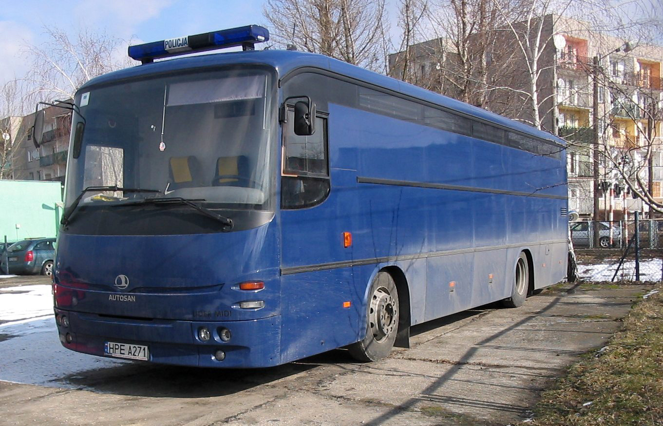 Autosan A1010T.02R Lider DW police bus (reg. HPE A271) in Poland. Built 2005.